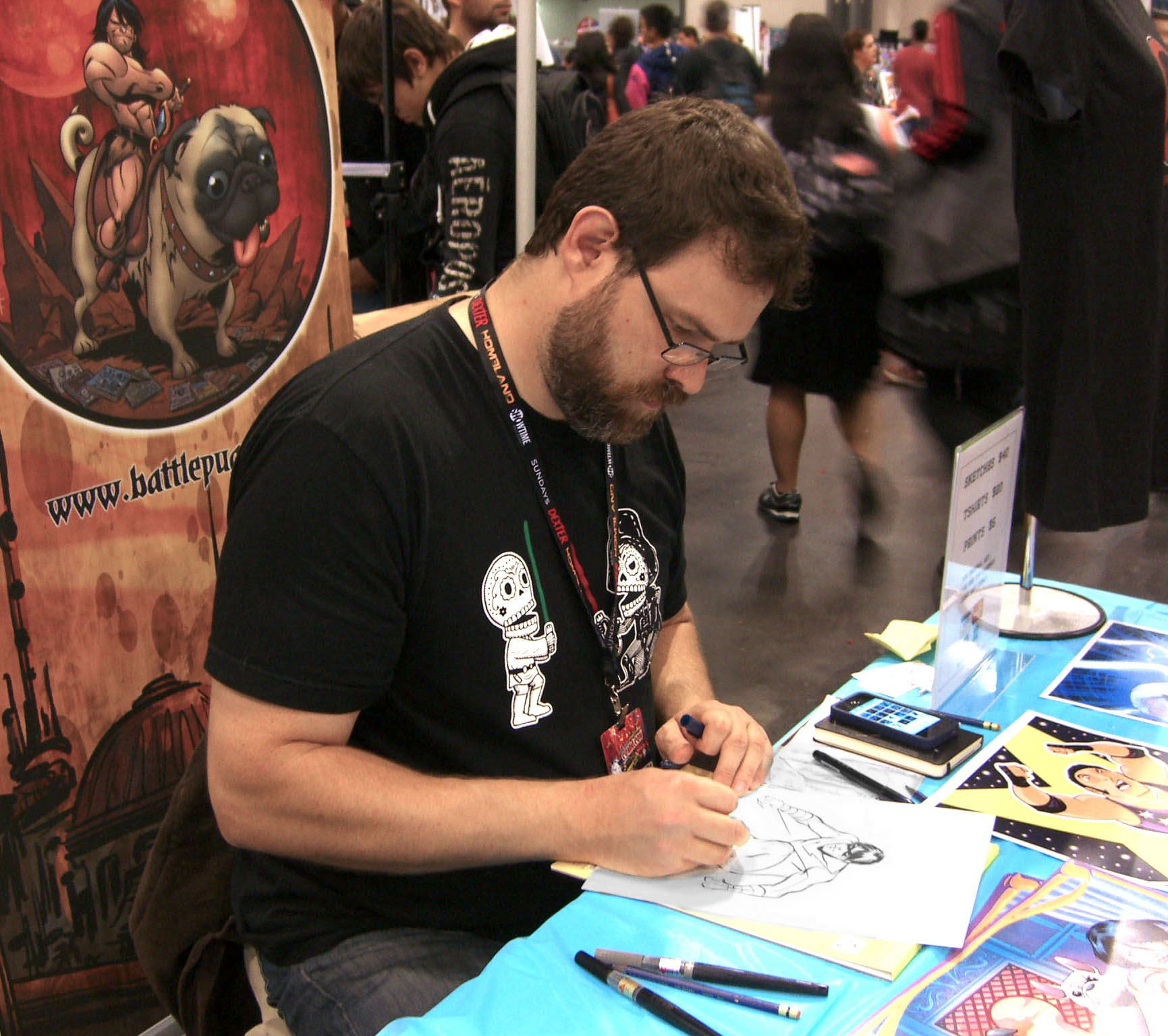 Comics creator Mike Norton during an October 16, 2011 appearance at the New York Comic Con in Manhattan. This photo was created by Luigi Novi. It is not in the public domain, and use of this file outside of the licensing terms is a copyright violation.